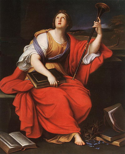 The Muse Clio